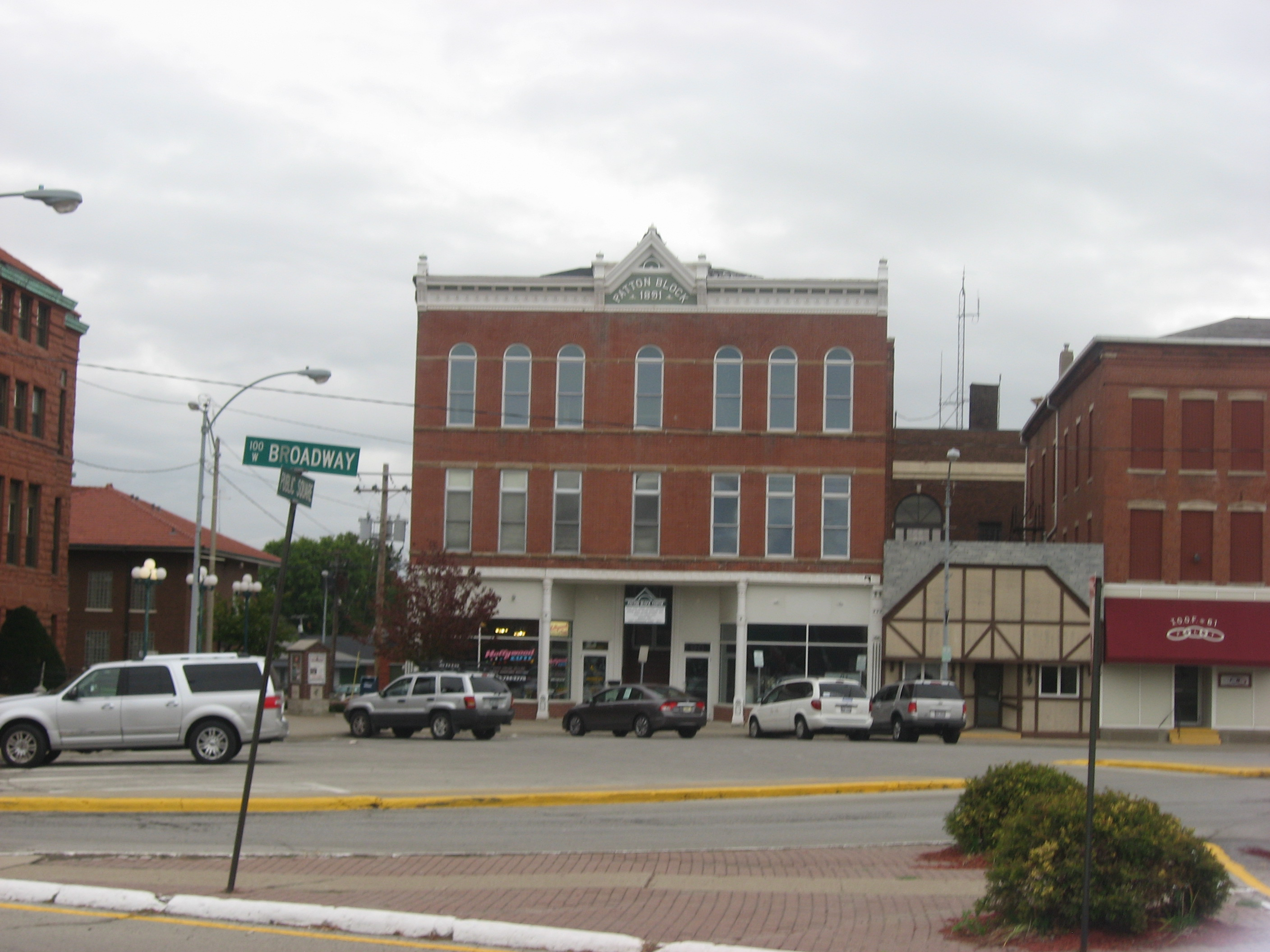 Front of the Patton Block Building, located at 88-90 Public Square in Monmouth, Illinois, United States. Built in 1891, it is listed on the National Register of Historic Places, and it is part of a Register-listed historic district, the Monmouth Courthouse Commercial Historic District.